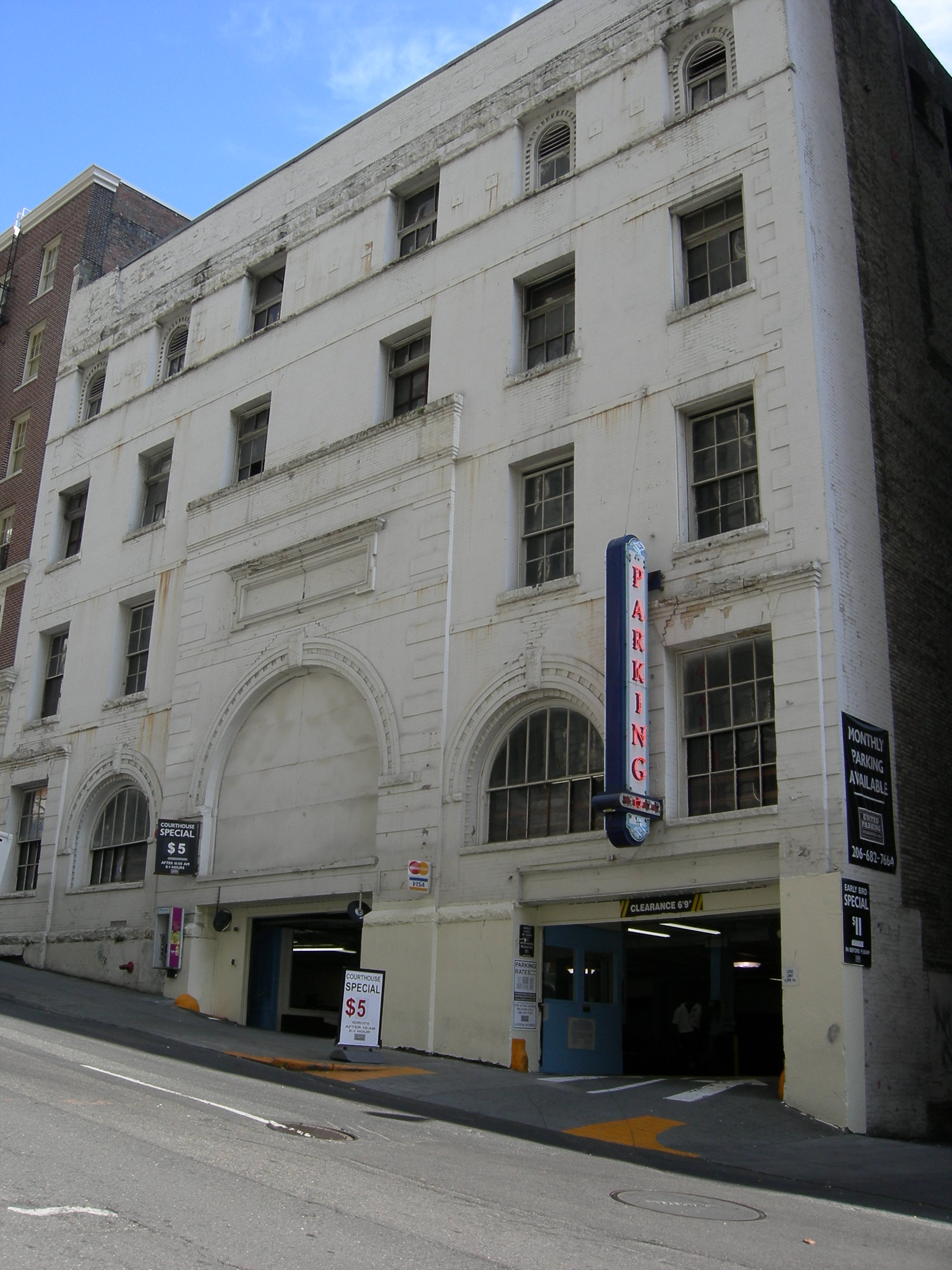 This building at 213–217 Cherry Street, Seattle, Washington was once the Grand Opera House, owned by John Cort. It survived a 1906 fire, but after it was gutted by another fire in 1917, it was converted to a parking garage in 1923. See Essay 2651 and Seattle Department of Neighborhoods article on 213 Cherry ST / Parcel ID 0939000090.